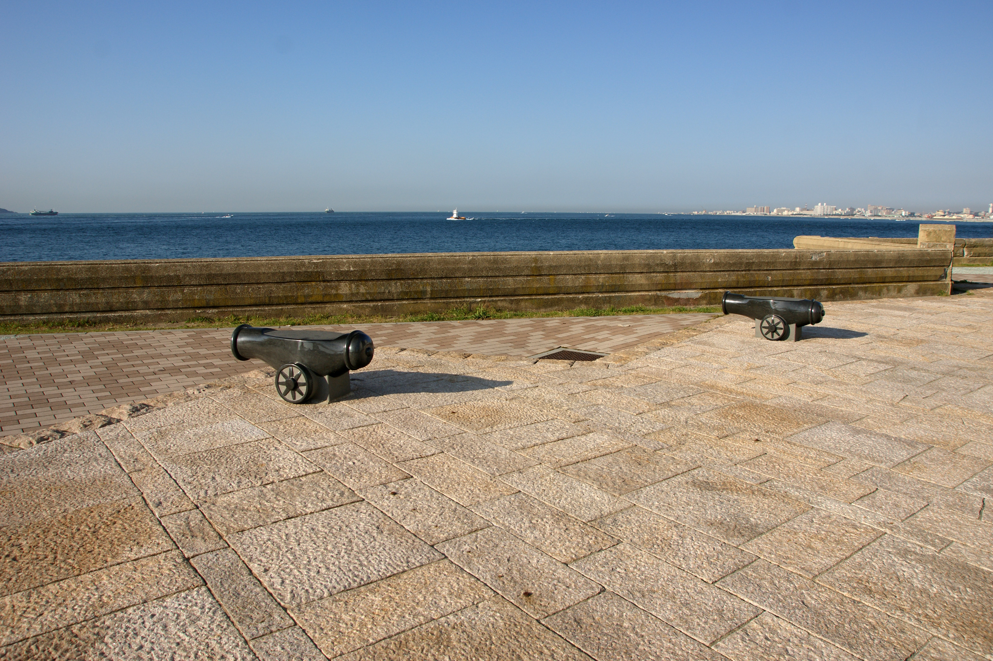 Akashi-han Maiko-daibaato (Maiko Park), Kobe, Hyogo prefecture, Japan